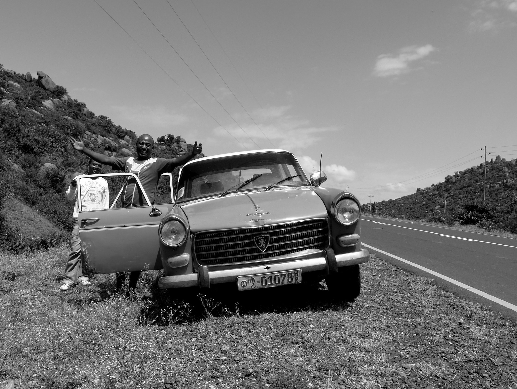 500px provided description: Welcome To Ethiopia [#old cars ,#ethiopia]